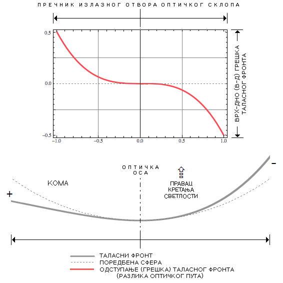 ВРХ-ДНО ГРЕШКА ТАЛАСНОГ ФРОНТА